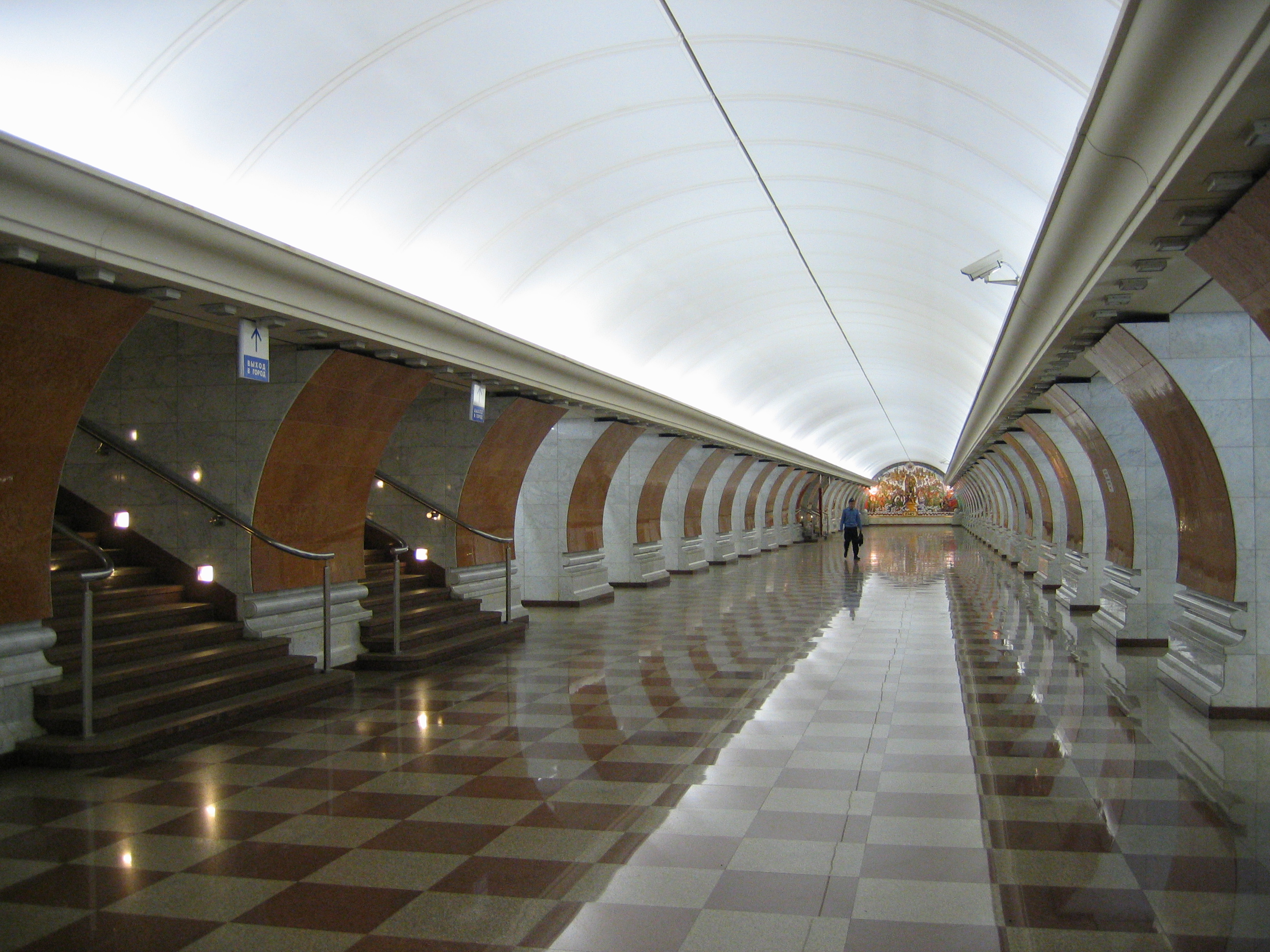 Moscow Metro, Park Pobedy station